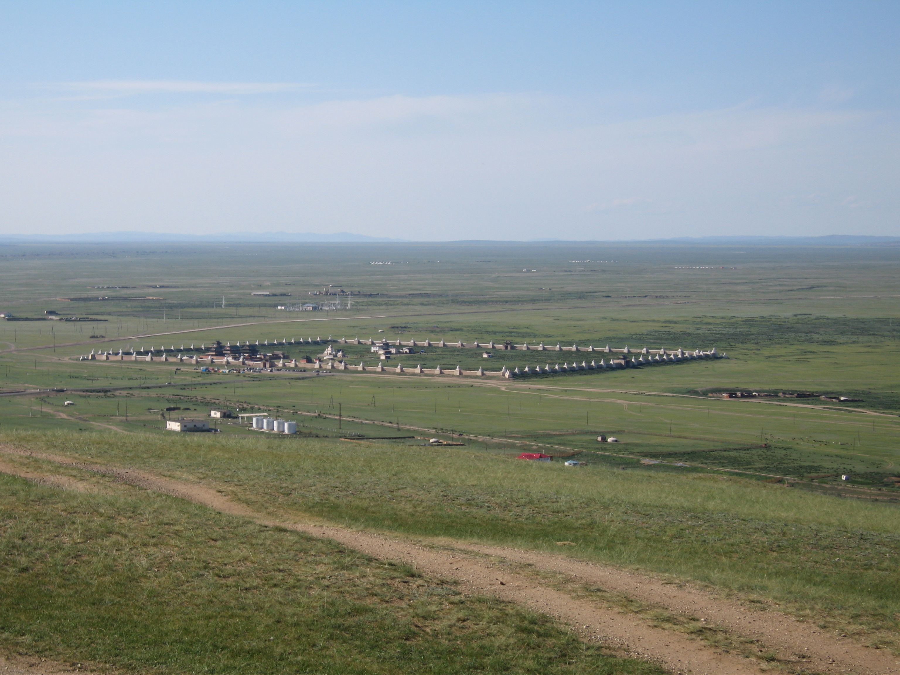 The Erdene Zuu monastery in Mongolia. Site of the ancient Karakorum behind the monastery, to the right (dark green area)